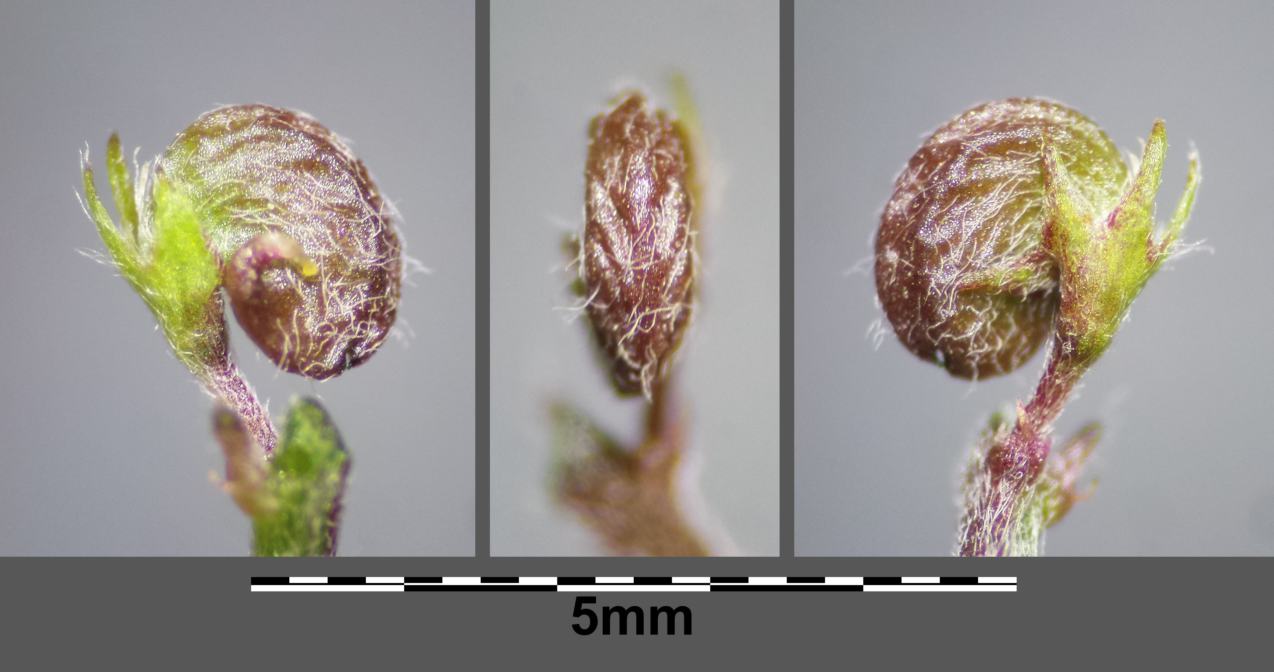 Fruit Taxonym: Medicago lupulina ss Fischer et al. EfÖLS 2008 ISBN 978-3-85474-187-9 Location: Neue Donau, Vienna-Floridsdorf - ca. 160 m a.s.l. Habitat: dry meadows